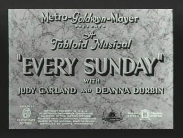 Released in 1936